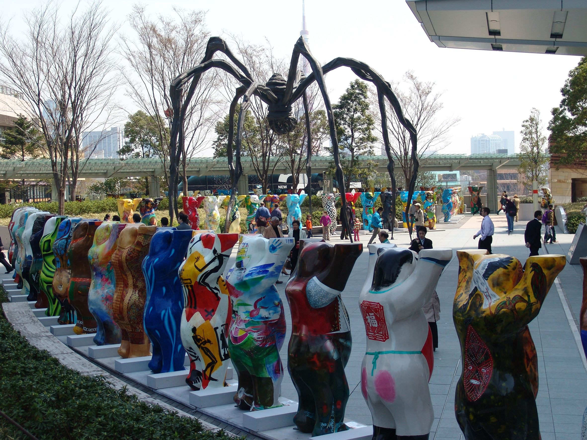 United Bears in Tokyo at Roppongi Hills, 2005